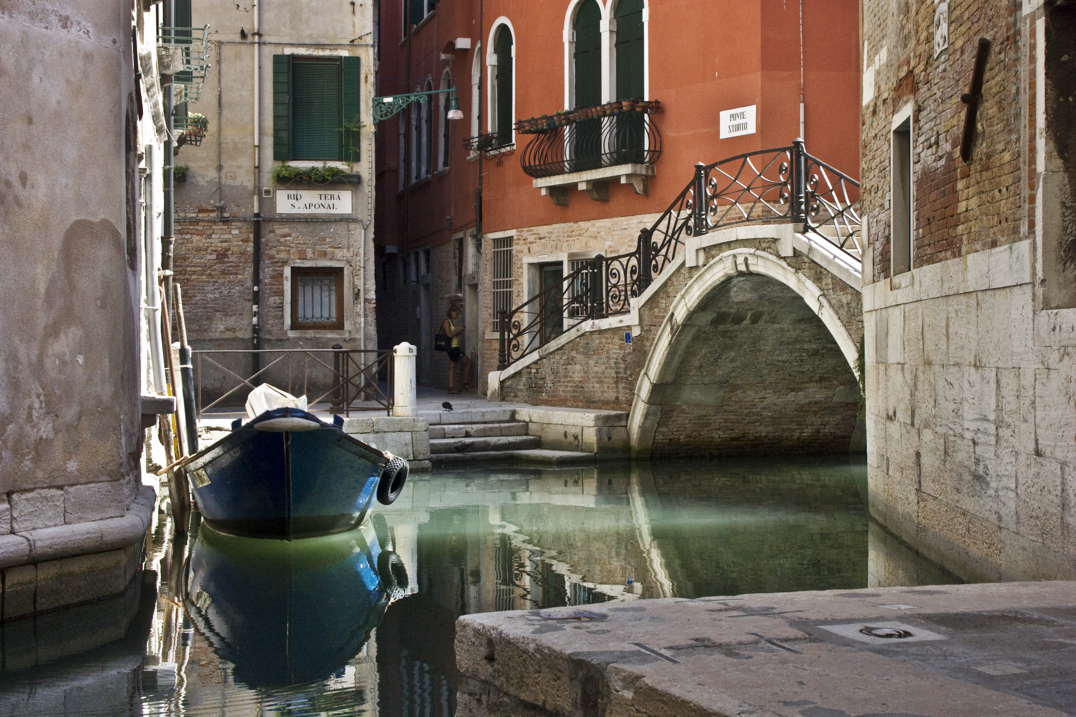 Canals in Venice